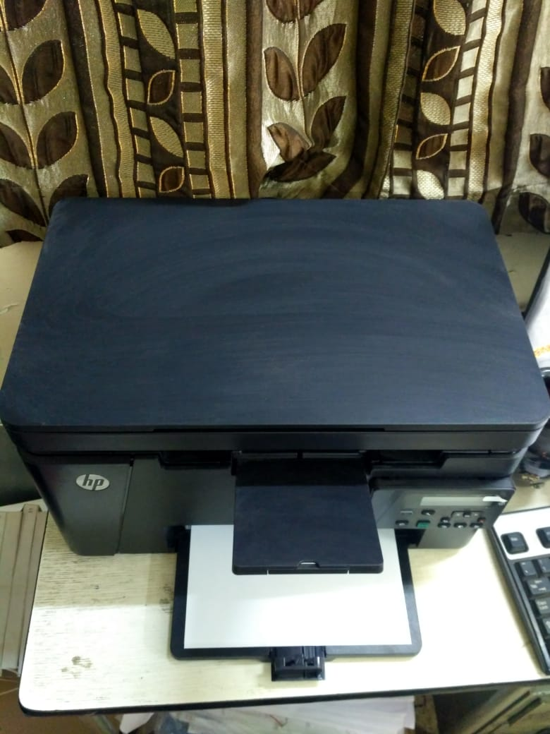 HP All In One Printer